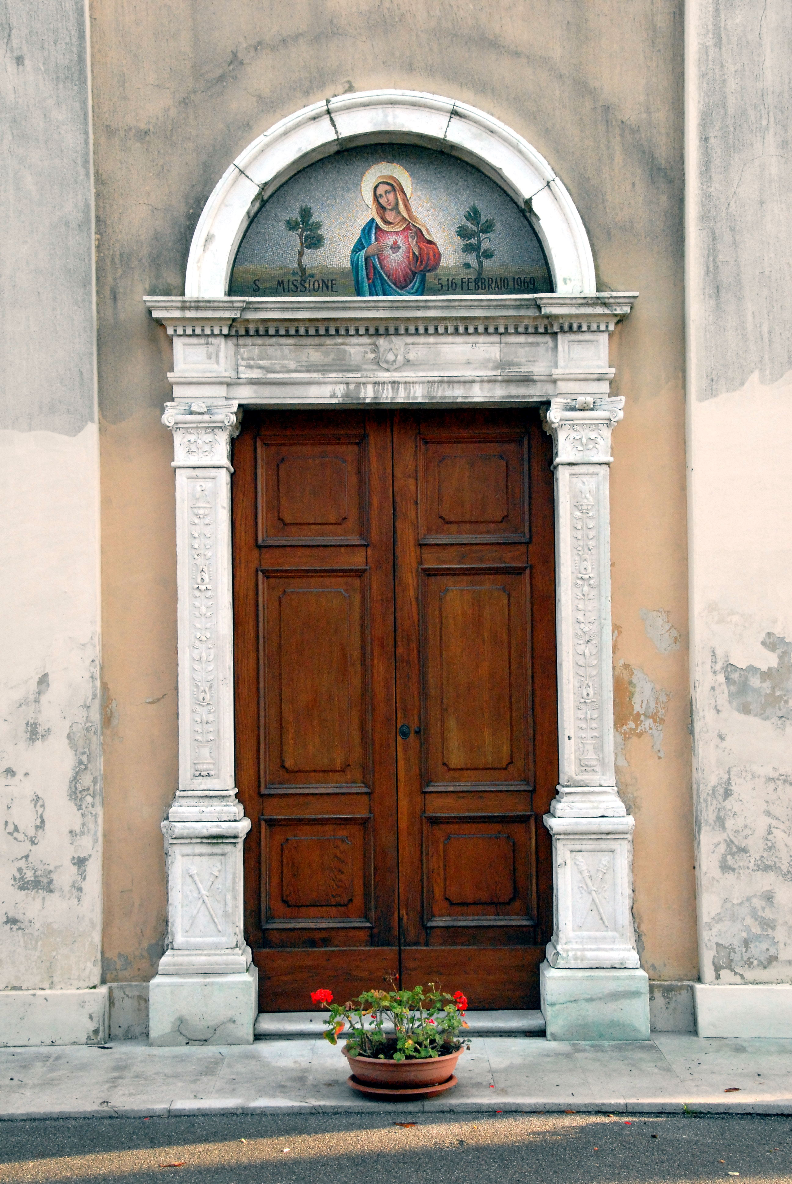 Portal (artwork by Pilacorte) of the church Saint Jakob at Ariis in the community Rivignano, province of Udine, region Friuli Venezia-Giulia, Italy